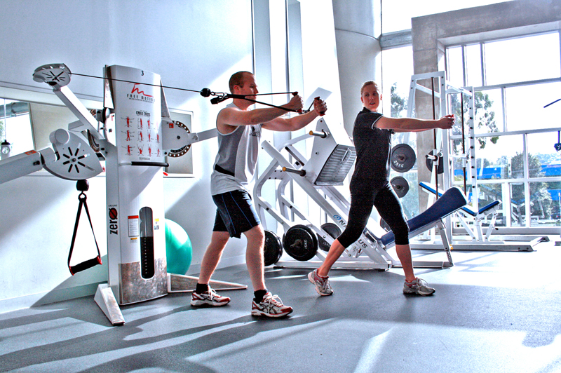 Personal Training at a Gym - Cable Crossover